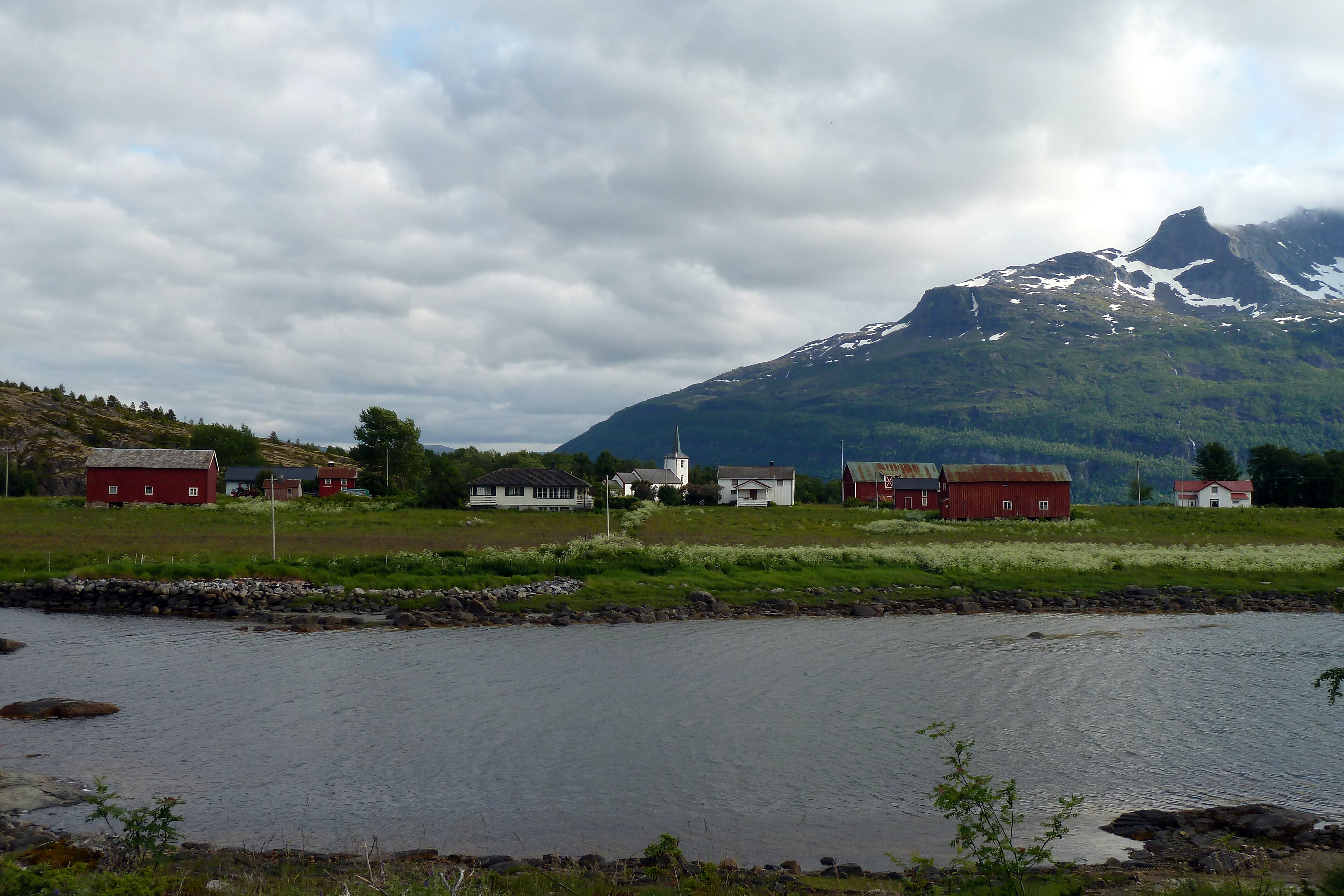 The small settlement Karlsøy at Finnøya in Hamarøy, Norway. In the centre of the picture: The local Sagfjord Church.